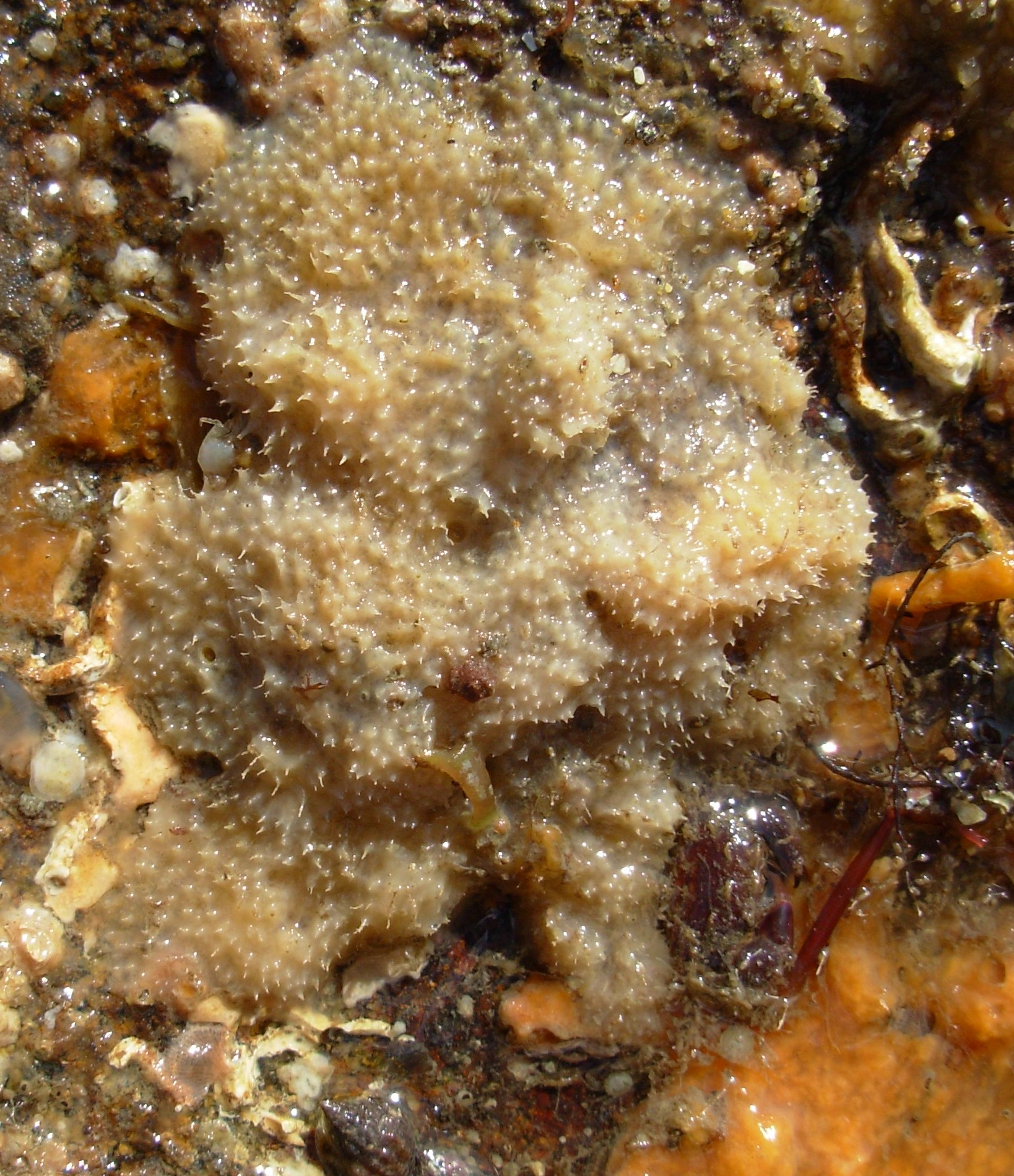 Dysidea fragilis, general view.